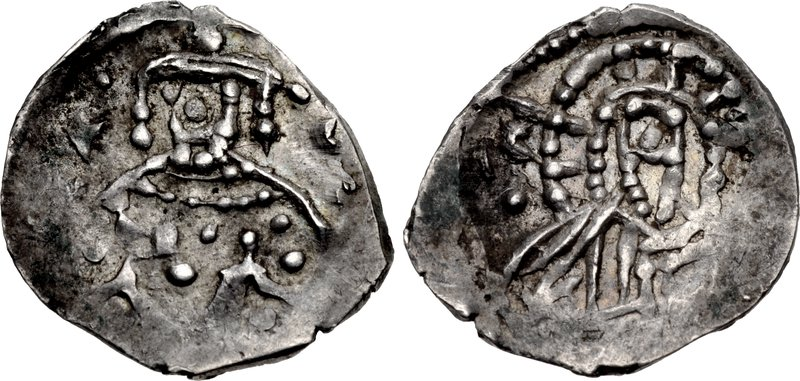 Constantine XI Palaeologus (Dragases). 1448-1453. AR Eighth Stavraton (13mm, 0.63 g, 12h). Constantinople mint. Facing bust of Christ Pantocrator; IC-XC across field / Crowned facing bust of Constantine